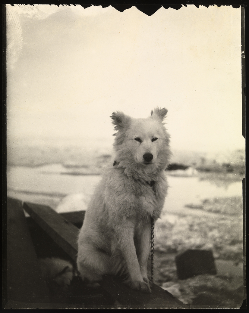 Tittel / Title: Hunden Suggen bundet til hundehuset på isen. Dato / Date: Juni 1894 Fotograf / Photographer: Fridtjof Nansen Sted / Place: Polhavet Eier / Owner Institution: Nasjonalbiblioteket / National Library of Norway Lenke / Link: Bildesignatur / Image Number: bldsa_3c231